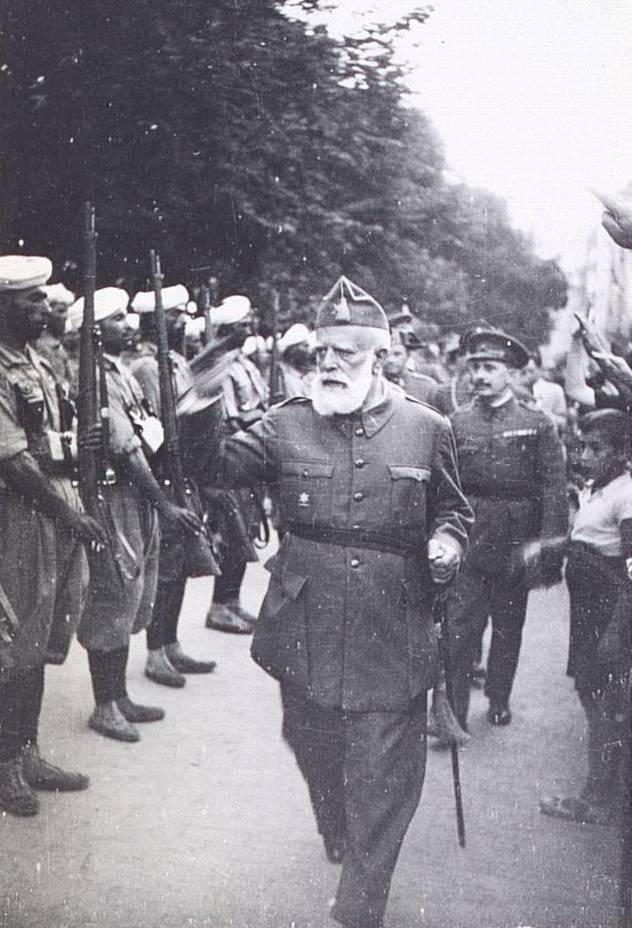 General Miguel Cabanellas reviewing a regulares formation